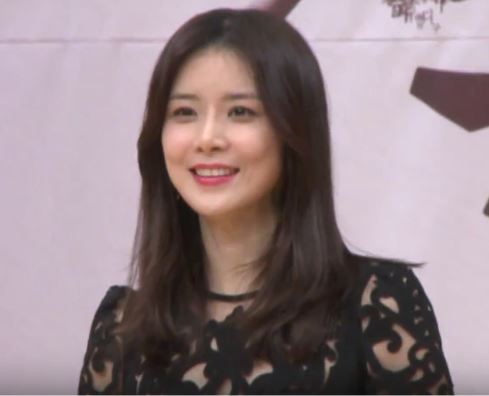 Lee Bo-young in 2017